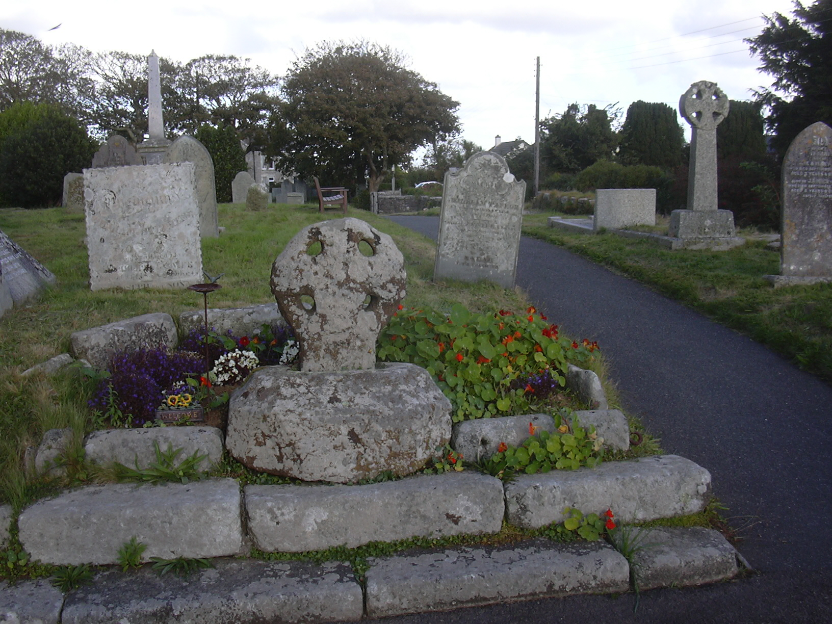 Breage village, Cornwall- Ancient cross in churchyard.